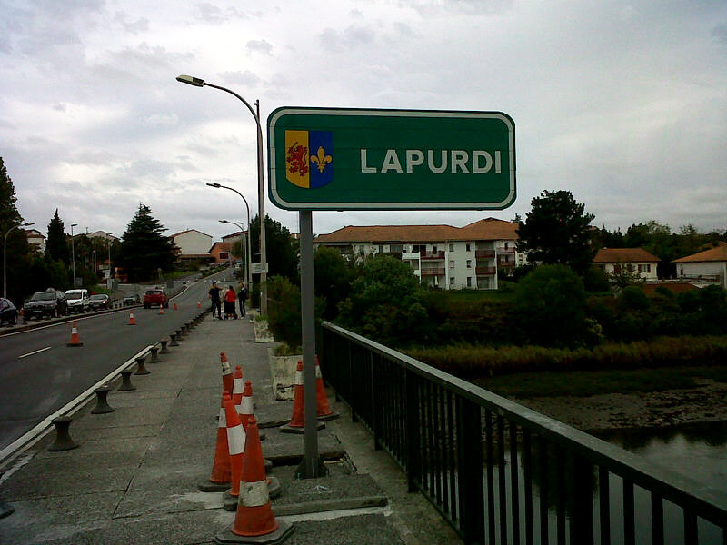 Signal depicting border between Gipuzkoa and Lapurdi, in the Basque Country